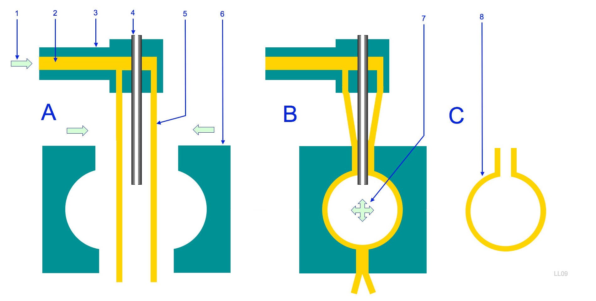 Principle drawing of the blow mould process. 1 Feed from the extruder. 2 Melted plastic. 3 Extruder head. 4 Air tube. 5 Preform (parison) / tubular shape of hot plastic. 6 Mould. 7 Air pressure. 8 (End) product.